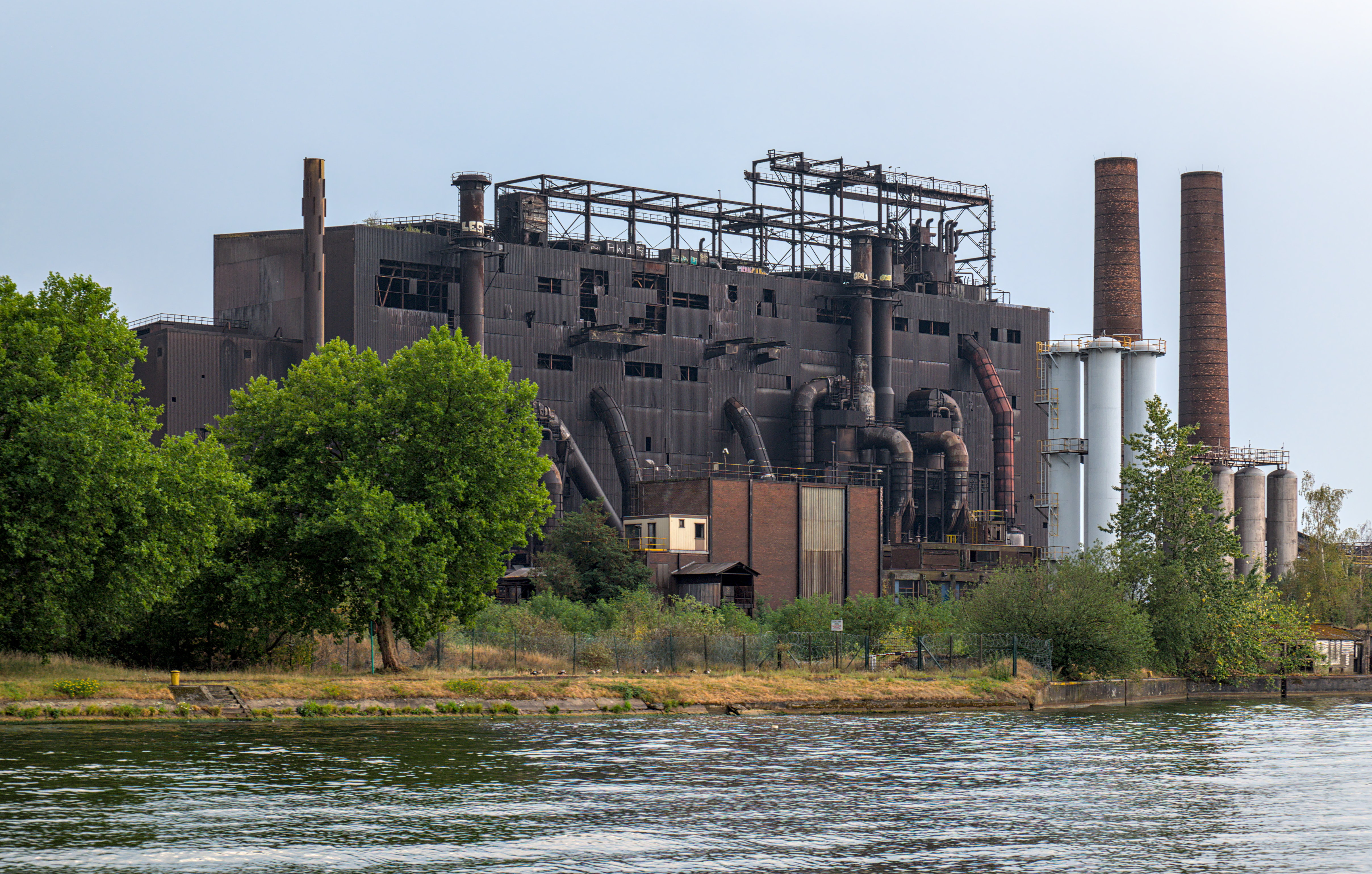 Abandoned Chertal steel factory in Oupeye, Belgium This photo of immovable heritage has been taken in the Walloon Region